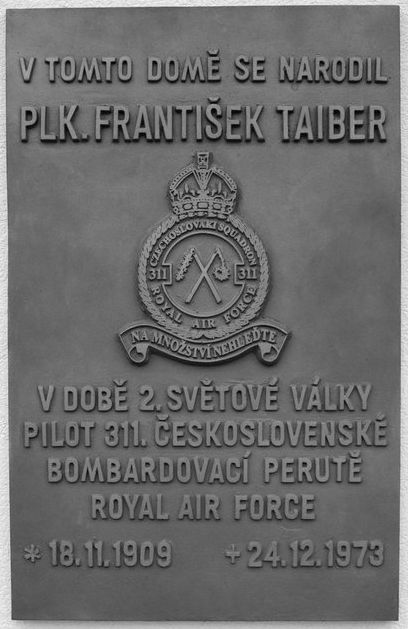 Bronze plaque in memory of František Taiber (* 1909–73) on the wall of his birth house in Bartošovice in the Eagle Mountains, Czech Republic. It was officially unveiled on 18 July 2009. In the Second World War Taiber was bomber pilot with 311 Squadron RAF (Royal Air Force).